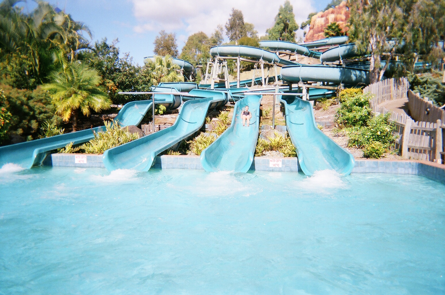 Wet'n'Wild Water World Australia White Water Mountain